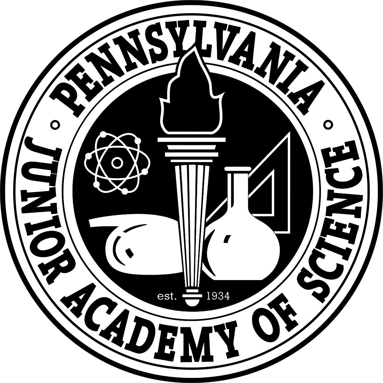 PJAS logo designed and created by Liam Chambers. Created in 2017 for the Pennsylvania Junior Academy of Science. Property of PJAS.